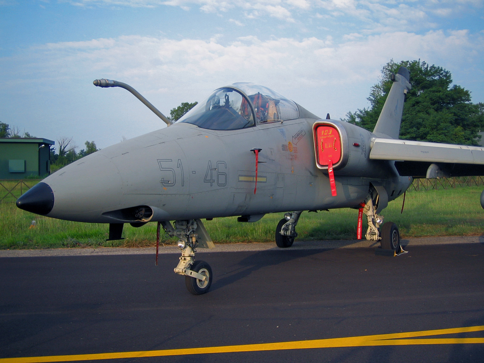 Alenia Aermacchi Embraer AMX of 51° Stormo of Italian Air Force